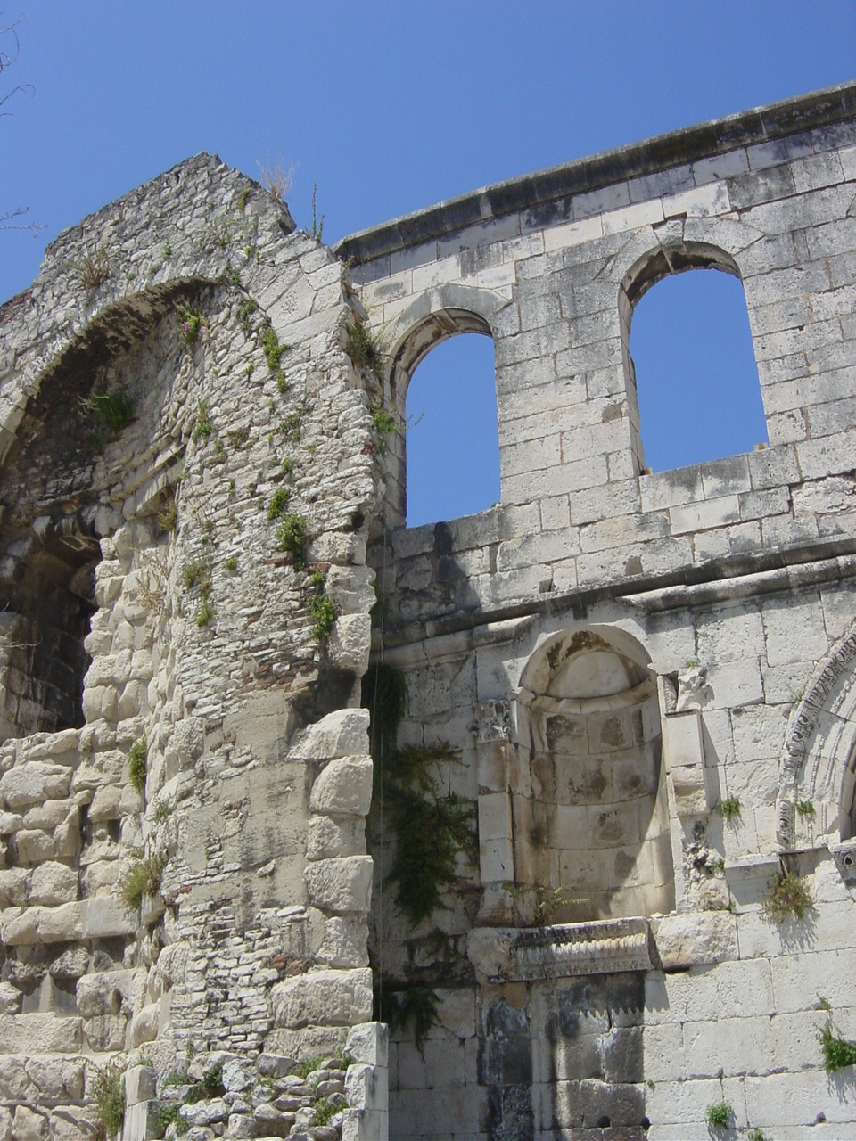 Silver gate, Roman walls, Split, Dalmatia, Croatia.